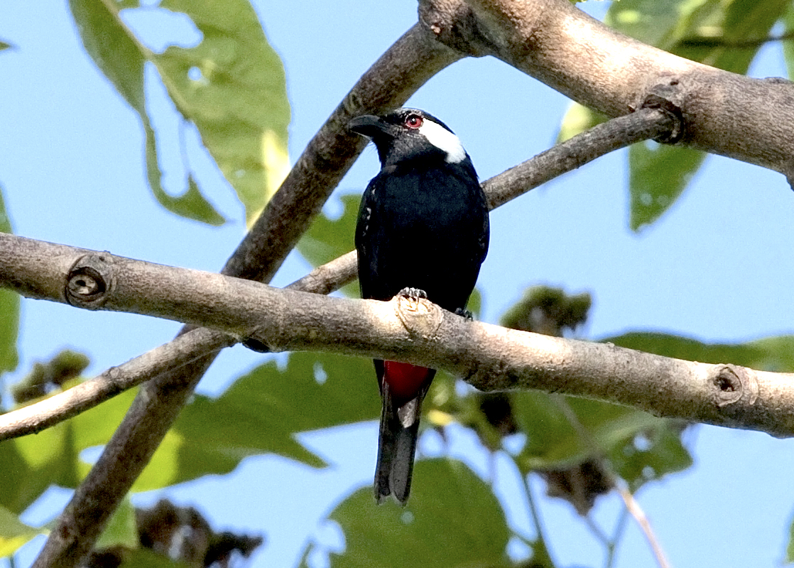 Lowland Peltops Peltops blainvillii, Madang, Papua New Guinea. A flycatcher-like bird which is in the same family as Butcherbirds (Artamidae) They make a very unusual noise, hence the other common name of "clicking shieldbill".